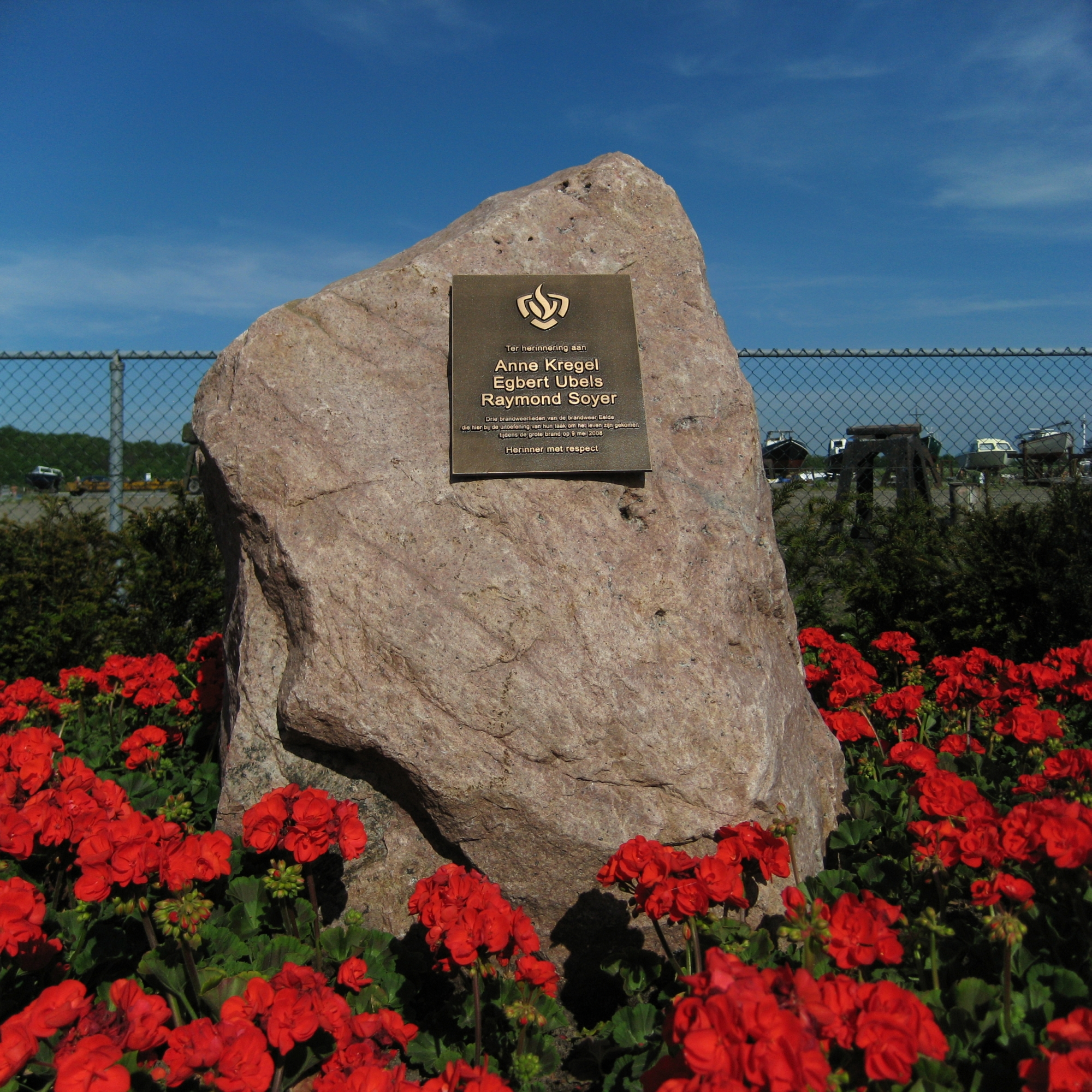 Memorial for three firemen who were killed on May 9, 2008, in a large fire at a shipyard in De Punt, a village in the Dutch province of Drenthe.